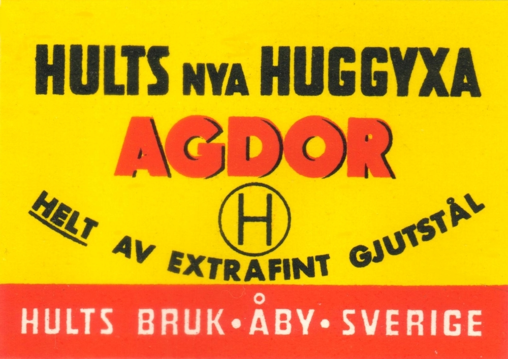 Sticker attached to Agdor axes from Hults bruk, Sweden